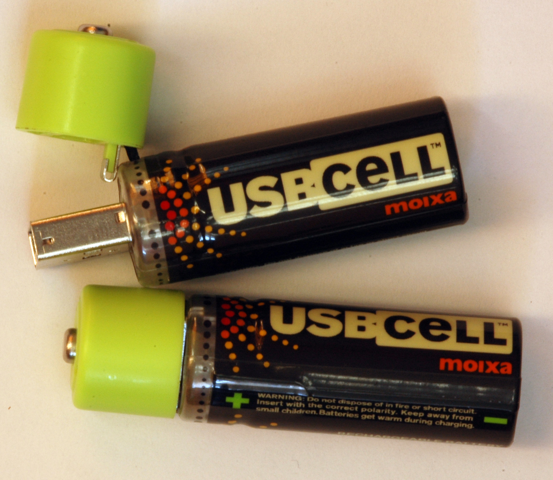 Photograph of two "USBcell" USB-charged rechargeable NiMH batteries.